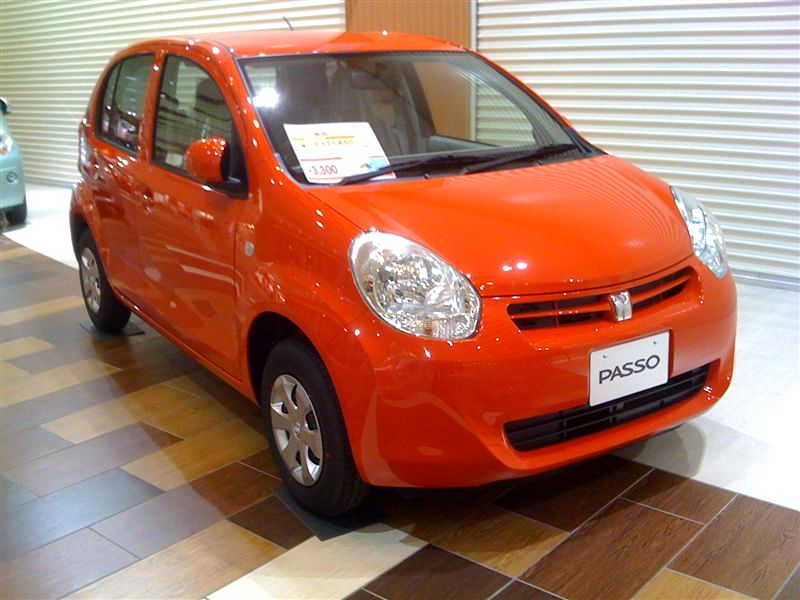 Toyota Passo